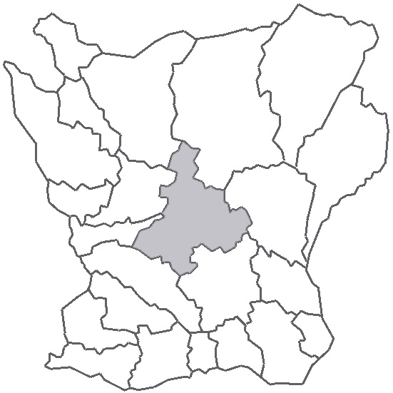 Map describing the location of Bjäre Hundred in the province of Skåne, Sweden.